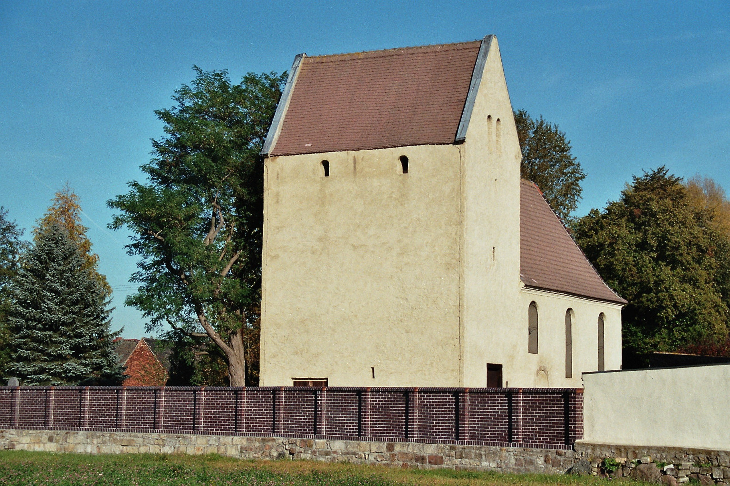 Nempitz (Bad Dürrenberg), the village church